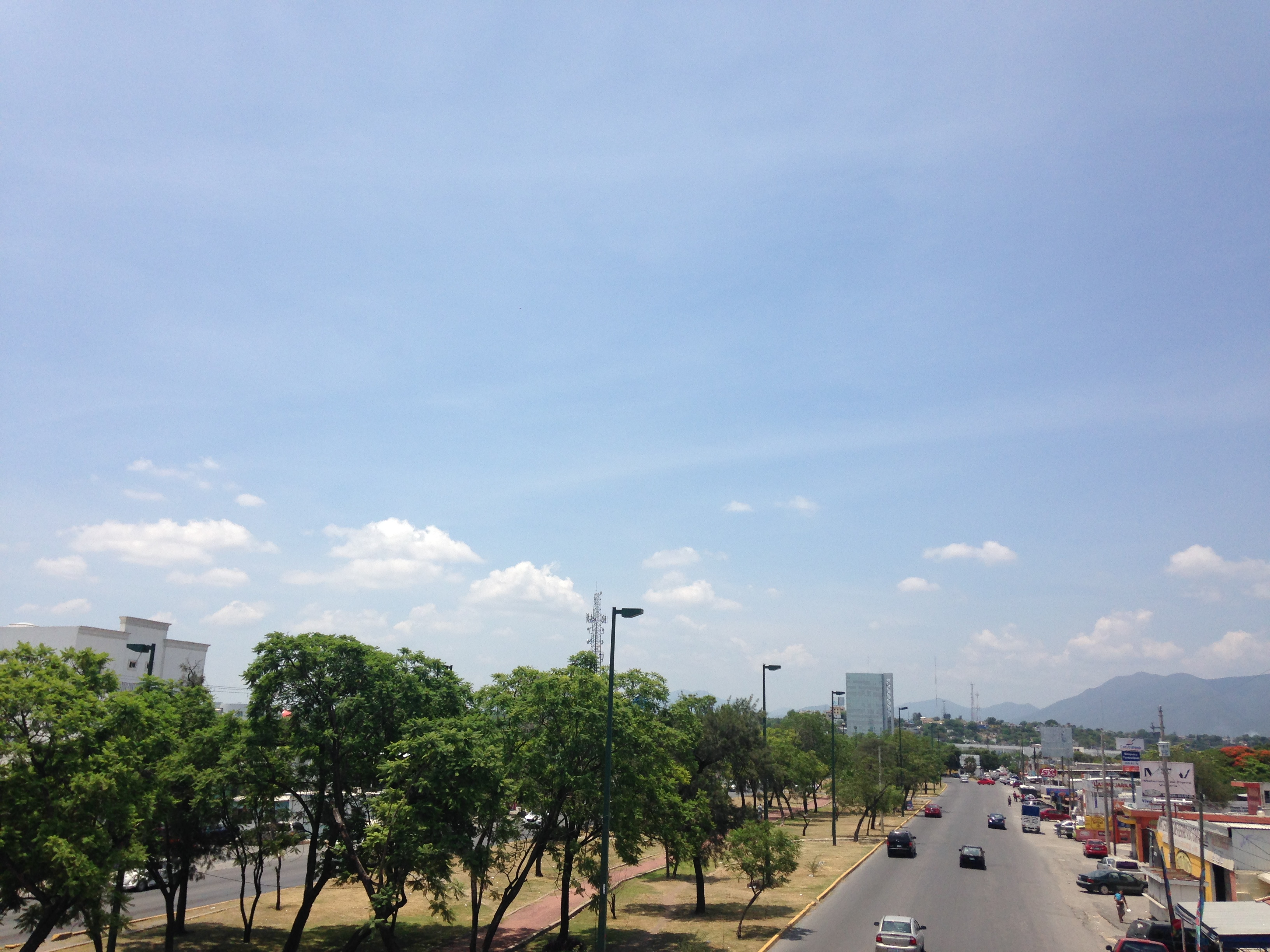 Fidel Velazquez Avenue between Carrera Torres Avenue near downtown of Victoria City, State of Tamaulipas, Mexico